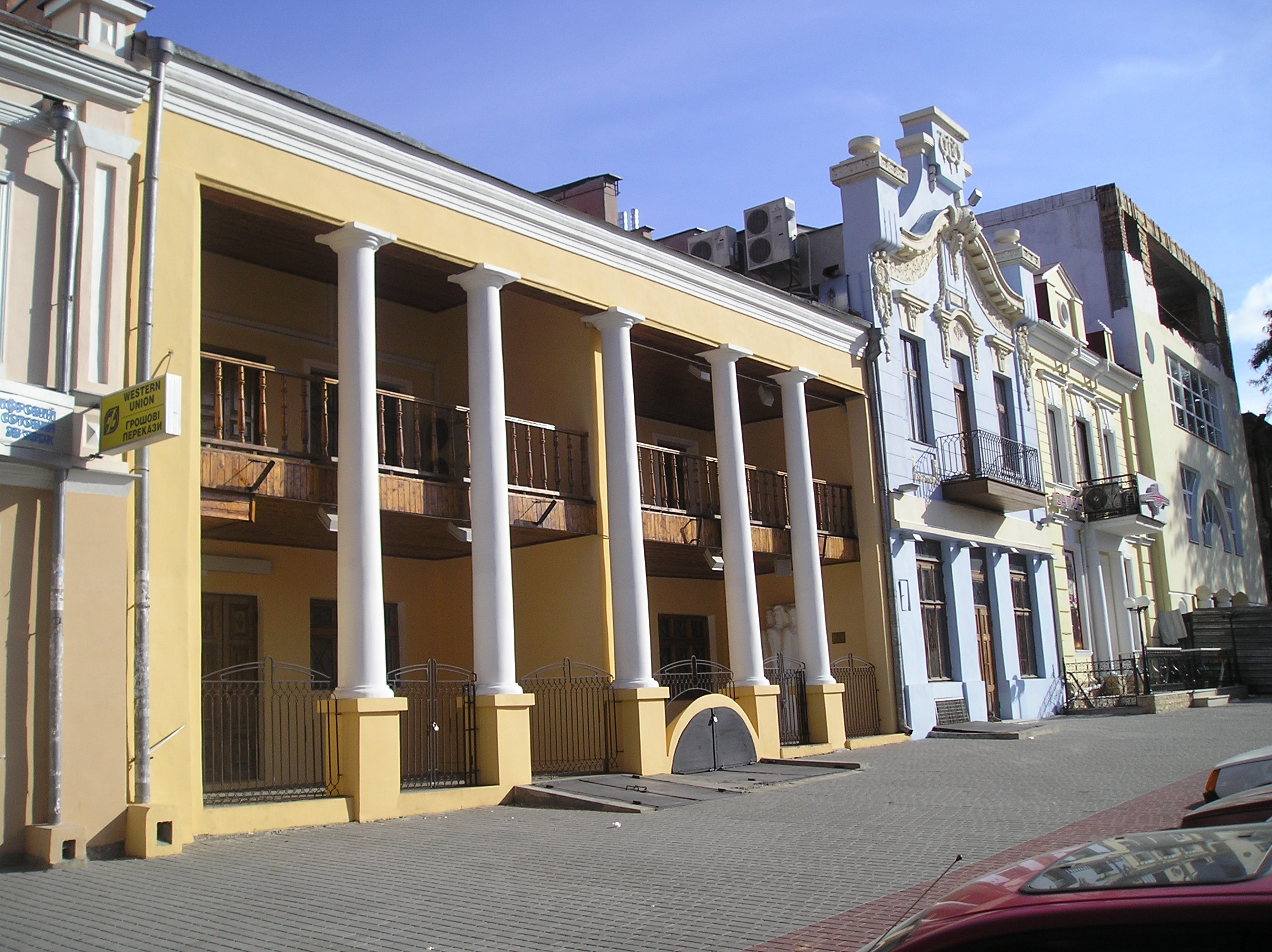 HFC building in Odessa, Ukraine